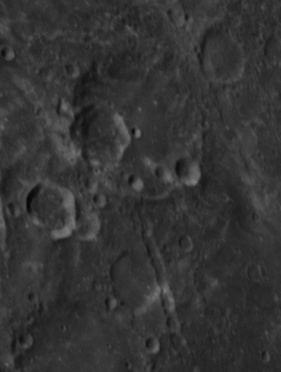 Oblique view of Dziewulski (above center) and Dziewulski Catena (linear feature in bottom half), on the far side of the moon. North is at top.